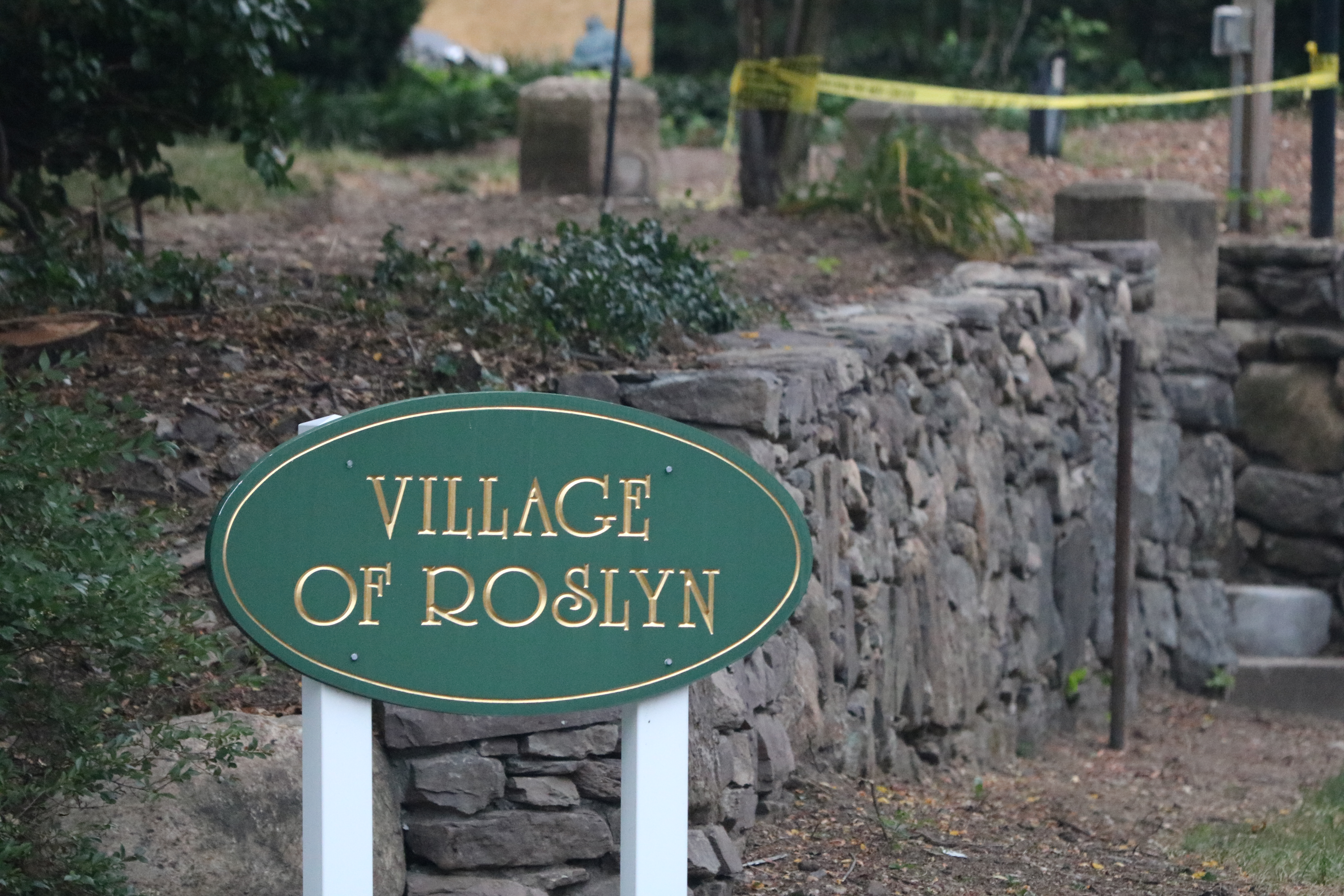 Village of Roslyn sign